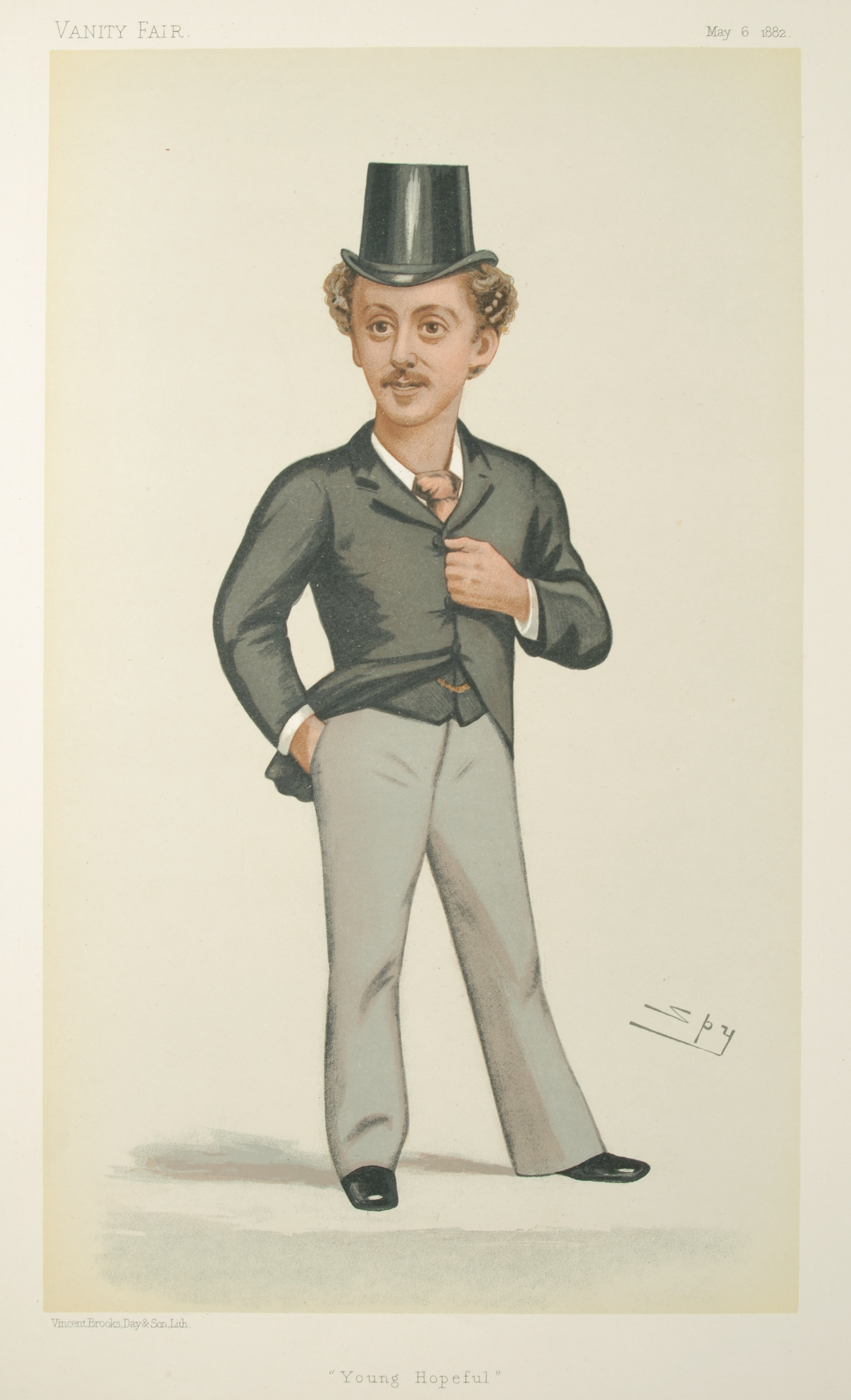 Statesmen No.399: Caricature of HJ Gladstone. Caption reads: "Young hopeful"